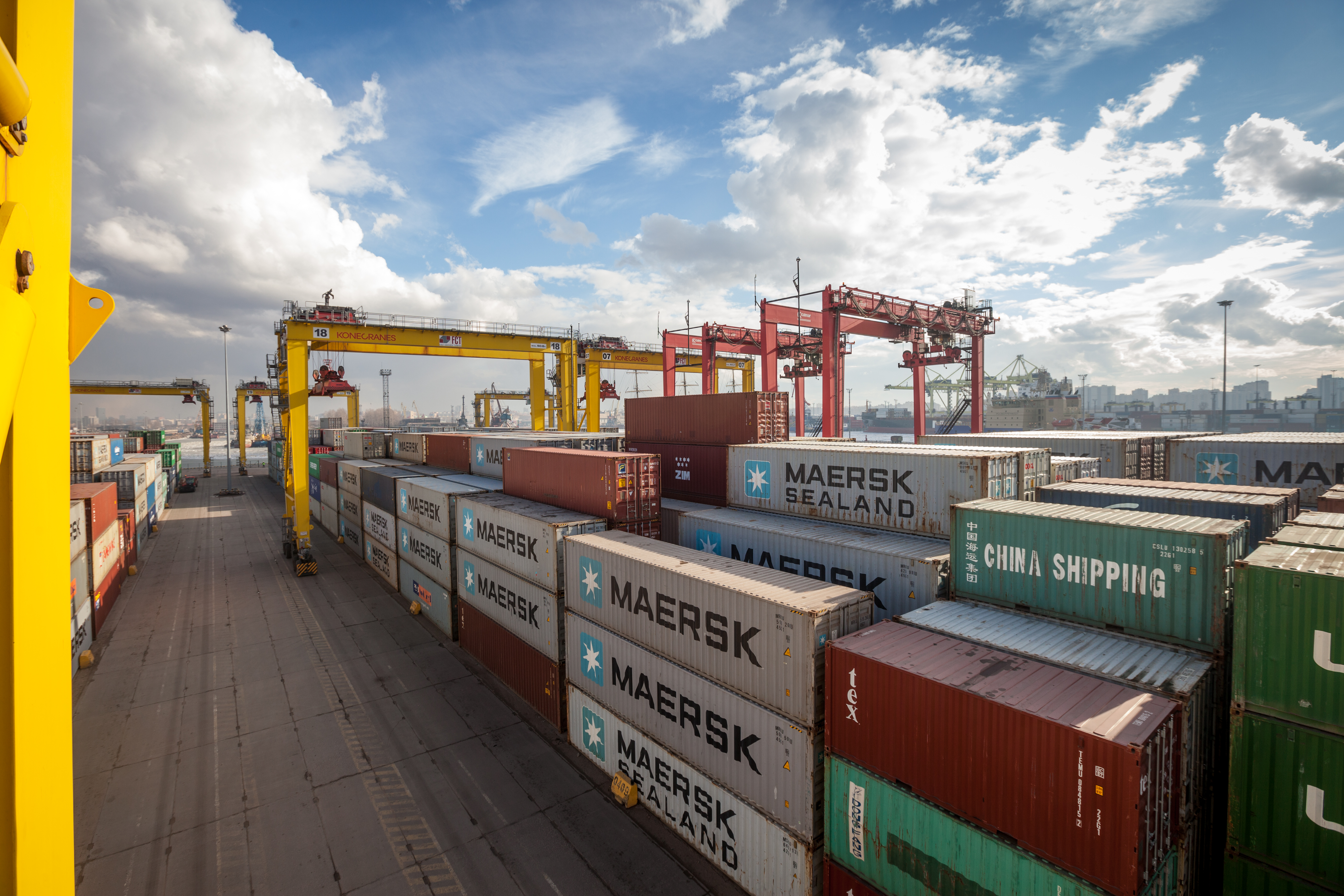 First Container Terminal in St.Peterburg